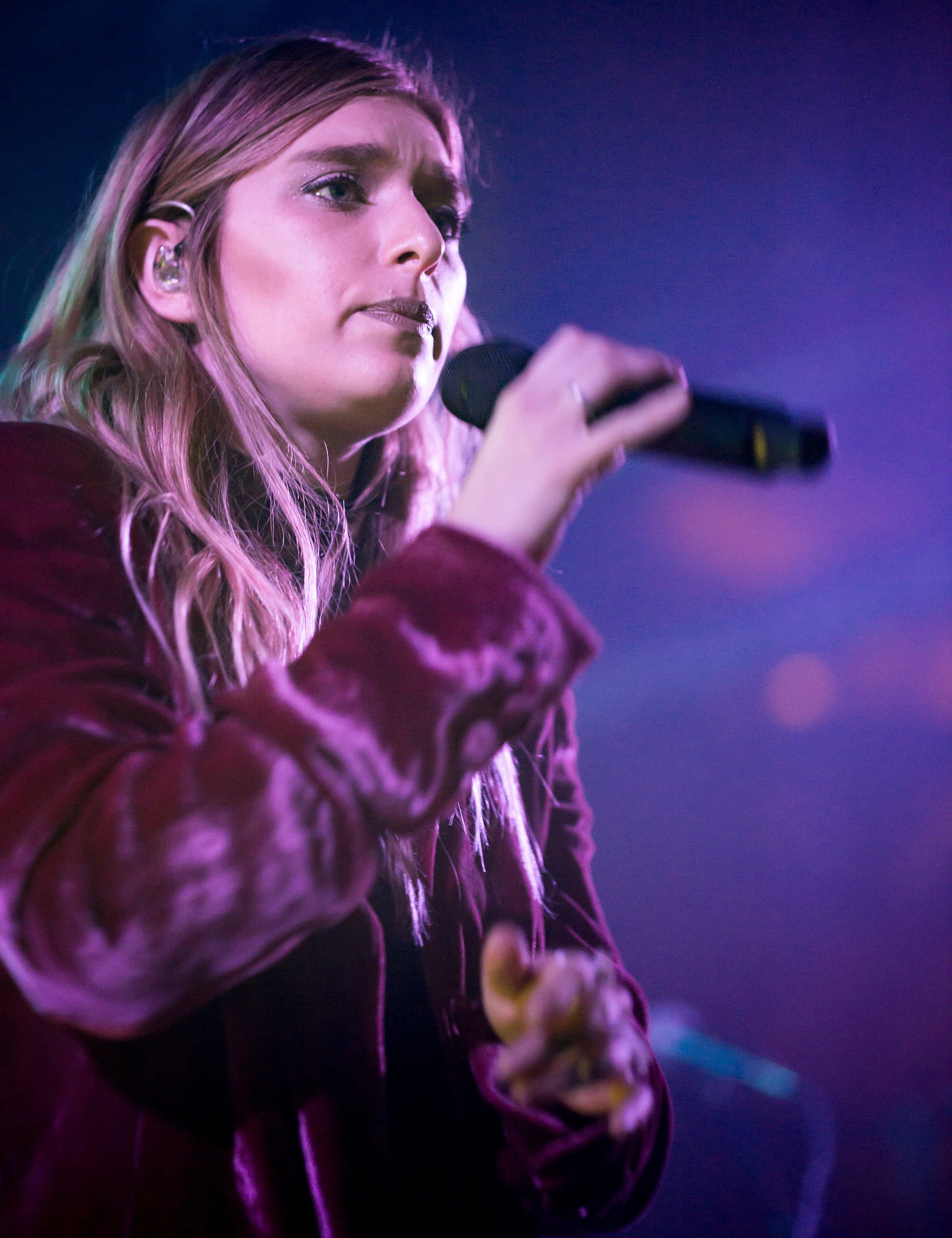 Vérité performing at the Troubadour in Los Angeles during September 2017